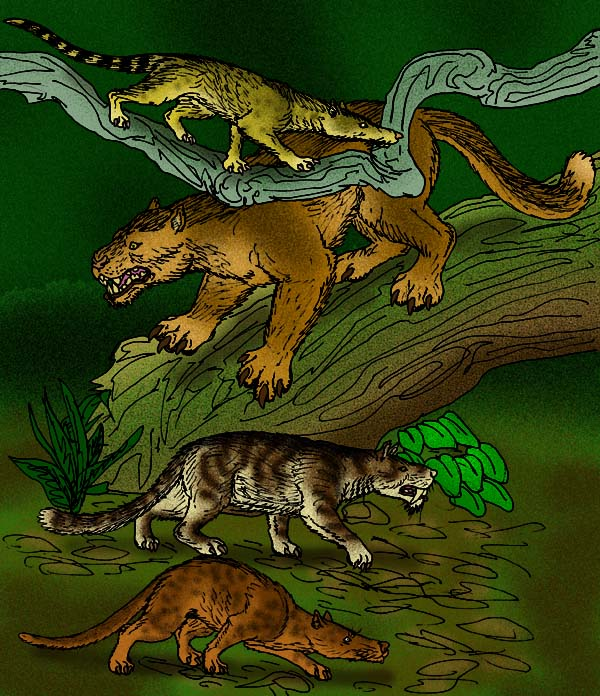 Various creodonts of the Eocene of Colorado, United States. From top, Tritemnodon, Patriofelis, Machaeroides, and Sinopa